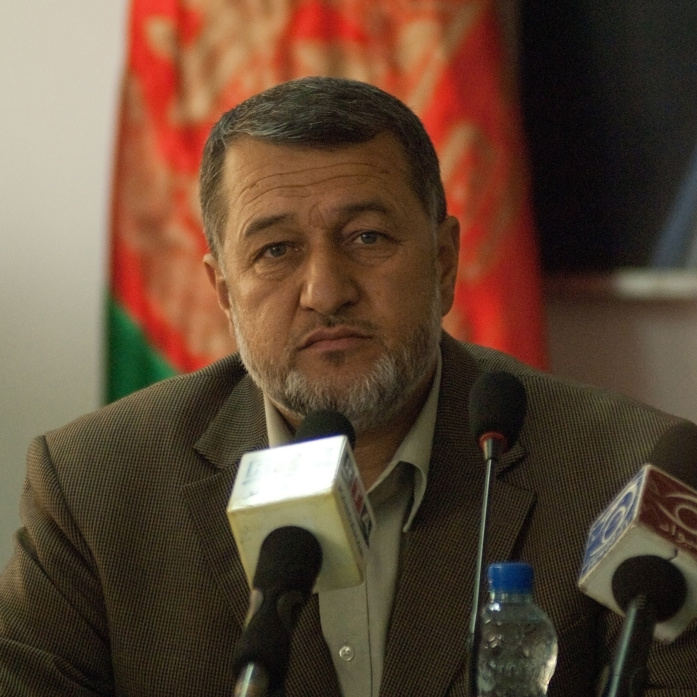 Afghanistan's Interior Minister Bismillah Khan addresses the media during a press conference in Kandahar May 10. Khan and Lt. Gen. Mohammed Akram, Afghanistan's 1st Deputy Minister of Defense, spoke with local media in regards to recent attacks in Kandahar City in which several Afghans were killed and wounded by violent insurgents. (U.S. Army photo by Staff Sgt. Brandon Pomrenke)